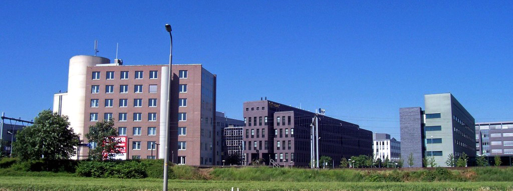 Modern business park Randwyck-Noord in Maastricht, the Netherlands.